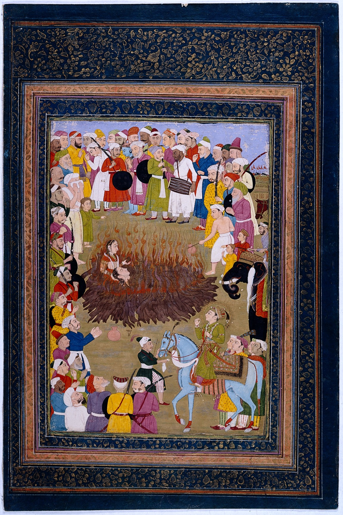 Depicts a scene in the work Sūz u gudāz ("Burning and melting") by Muhammad Rizā Nau'ī of Khasbushan (d. 1610). In the right foreground, on horseback, is Prince Dāniyāl, Akbar's third son, from whom Nau'ī received the story.